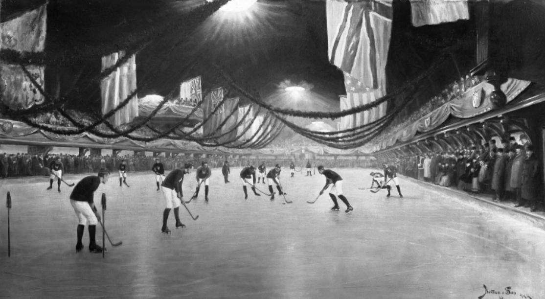 Photograph - Hockey Match, Victoria Rink, Montreal, QC, composite, 1893, Silver salts on glass - Gelatin